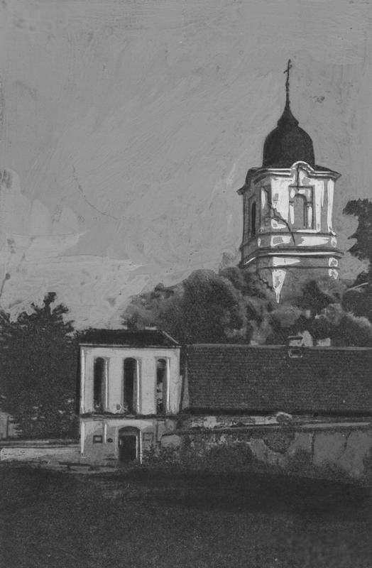 General view of the church